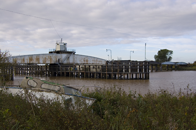 Goole rail bridge, East Riding of Yorkshire, England.Swing bridge over the River Ouse, seen from the eastern bank at Skelton. The bridge was threatened with closure in the 1980s due to the cost of repairing damage caused by frequent collisions with shipping. Humberside County Council intervened to help meet the cost of repairs and so preserve the direct rail link between Hull and Doncaster via Goole.